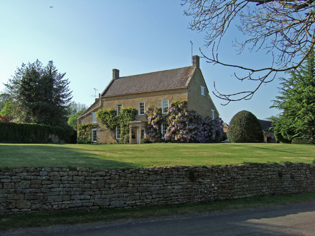 The Old Rectory - Compton Pauncefoot. Next to the village church is the former Georgian rectory, dating from the mid C18, and Grade II listed.